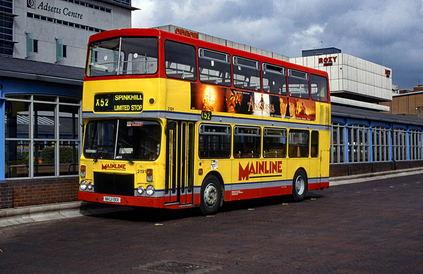 Mainline Dennis Dominator DDA133 Alexander at Sheffield bus station. Fleet number: 2191, registration number: NKU 191X. Scanned from a Fujichrome 35mm slide